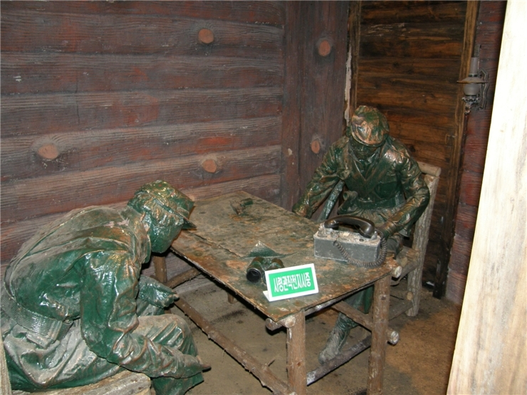 Partisan's Headquarter in Hoemunsan, South Korea